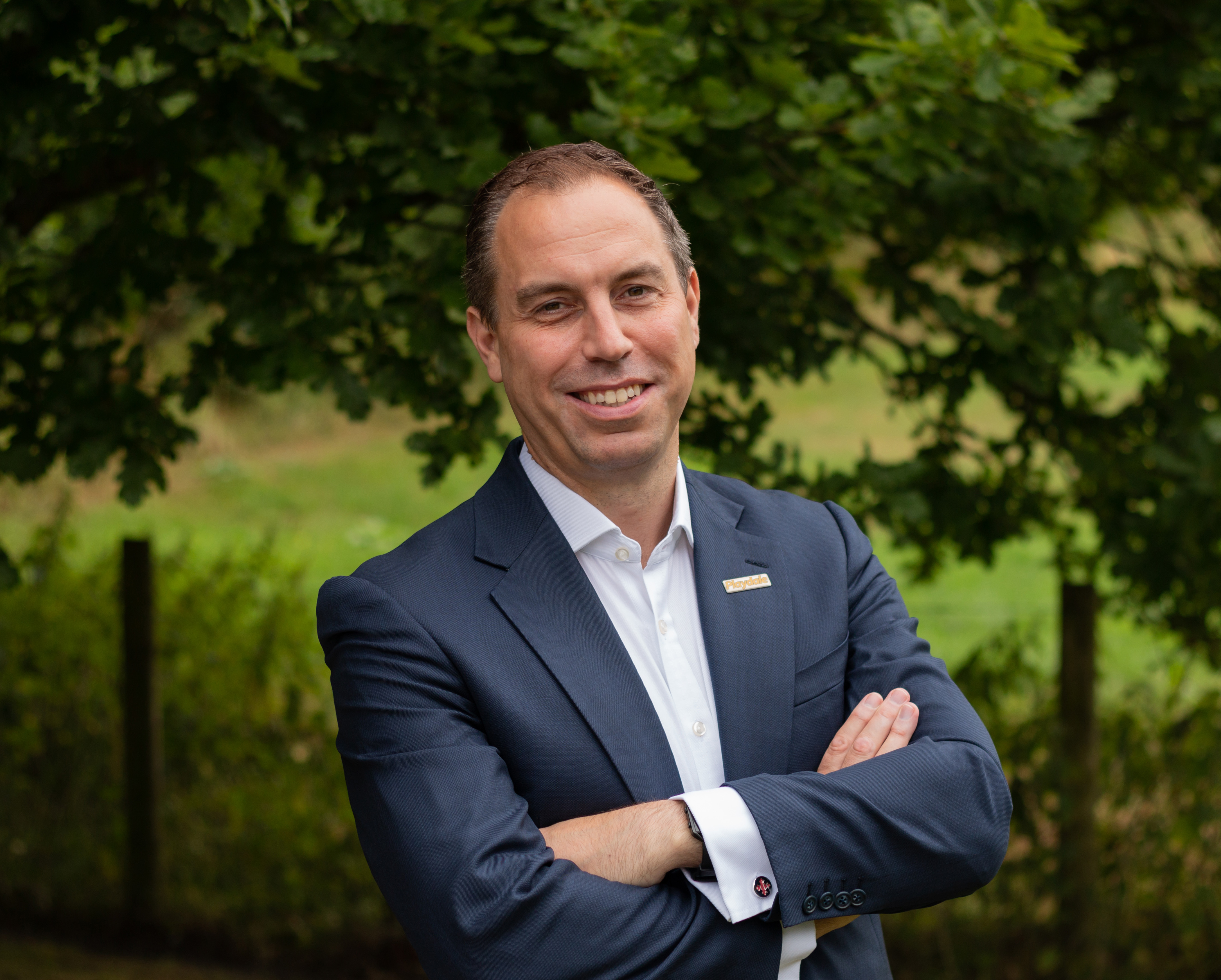 Barry Leahey Headshot